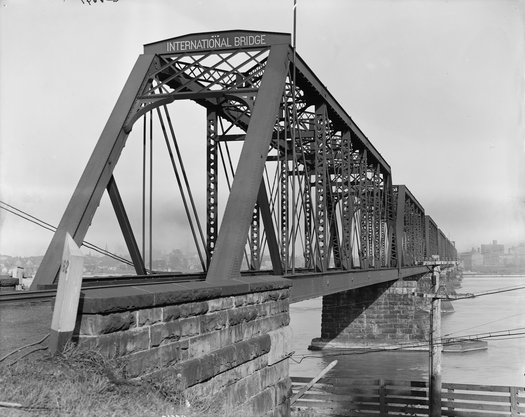 International Railway Bridge in Buffalo